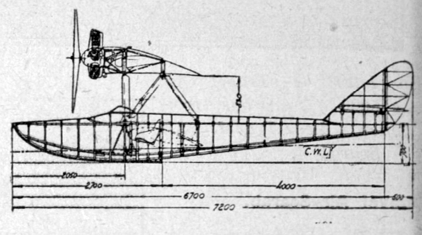 Shavrov Sh-1 and Walter NZ-60 (layout 1). One of the proposals - on the final version was the engine Walter NZ-85